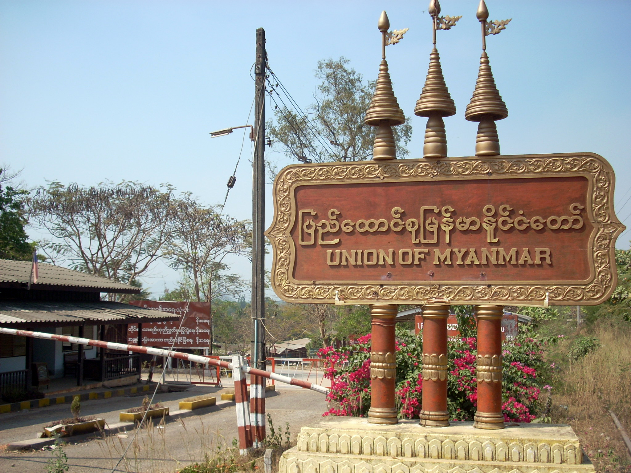 This is Three Pagodas Pass, the border checkpoint between Thailand and Myanmar (Burma). It has been closed for 9 months.